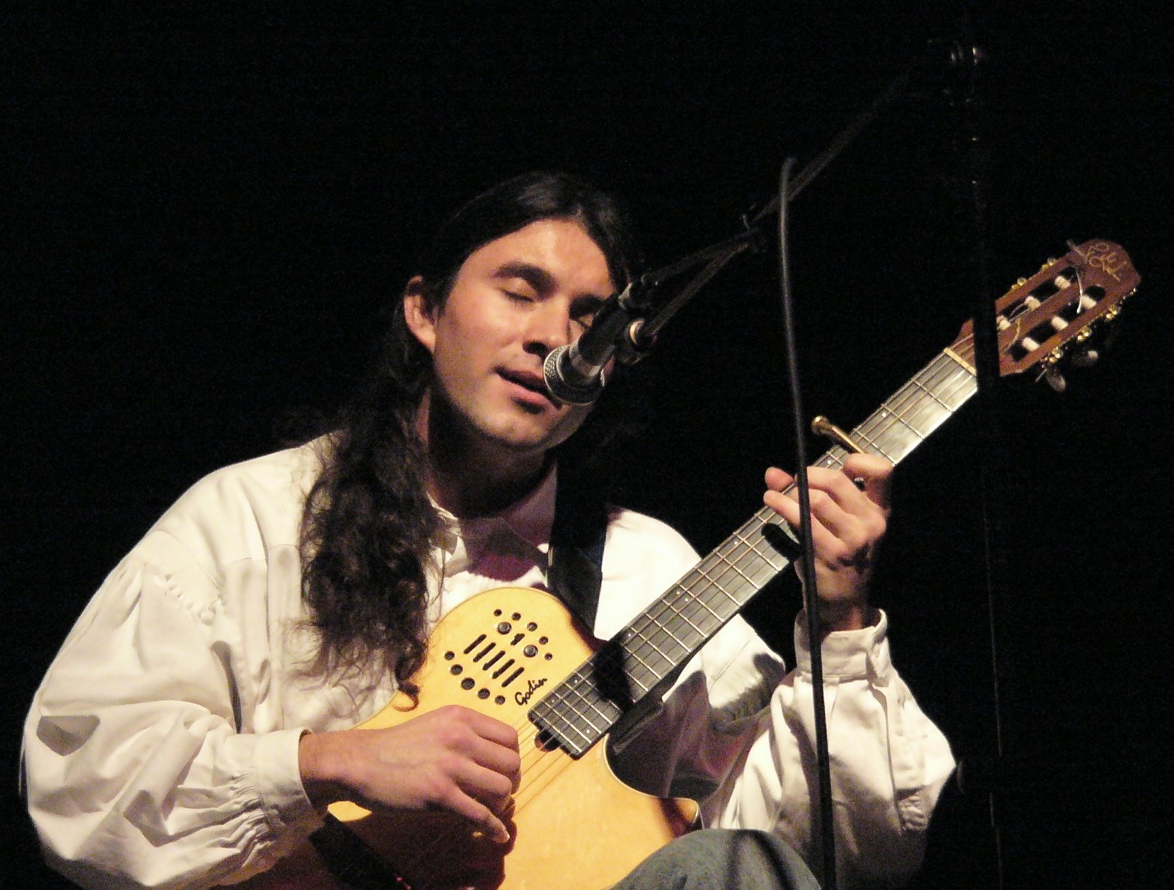 Beau Jarred, Melanie Safka's son in Charlotte, North Carolina